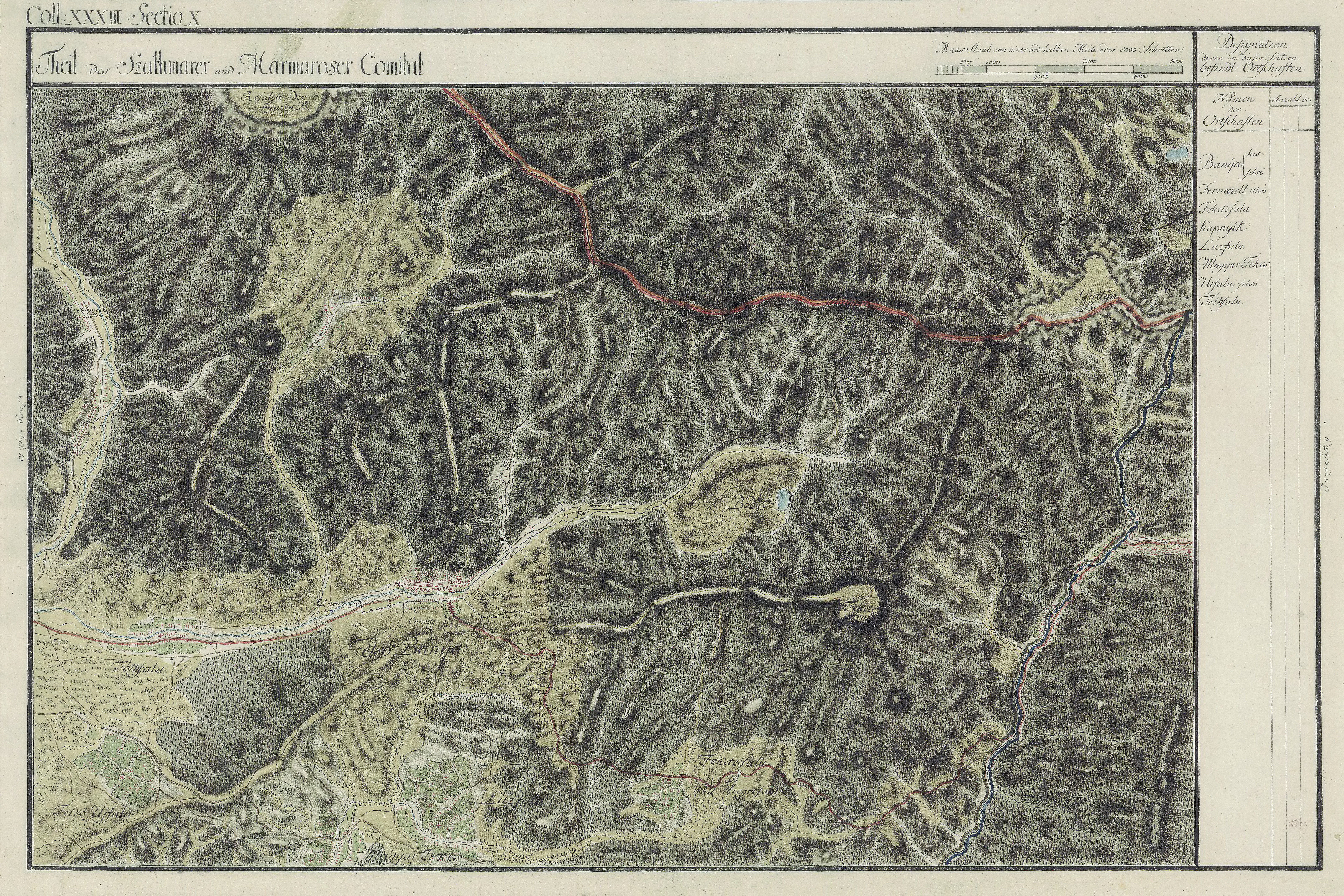 Maramureş County, 1769-1773. Josephinische Landesaufnahme pg.33-10